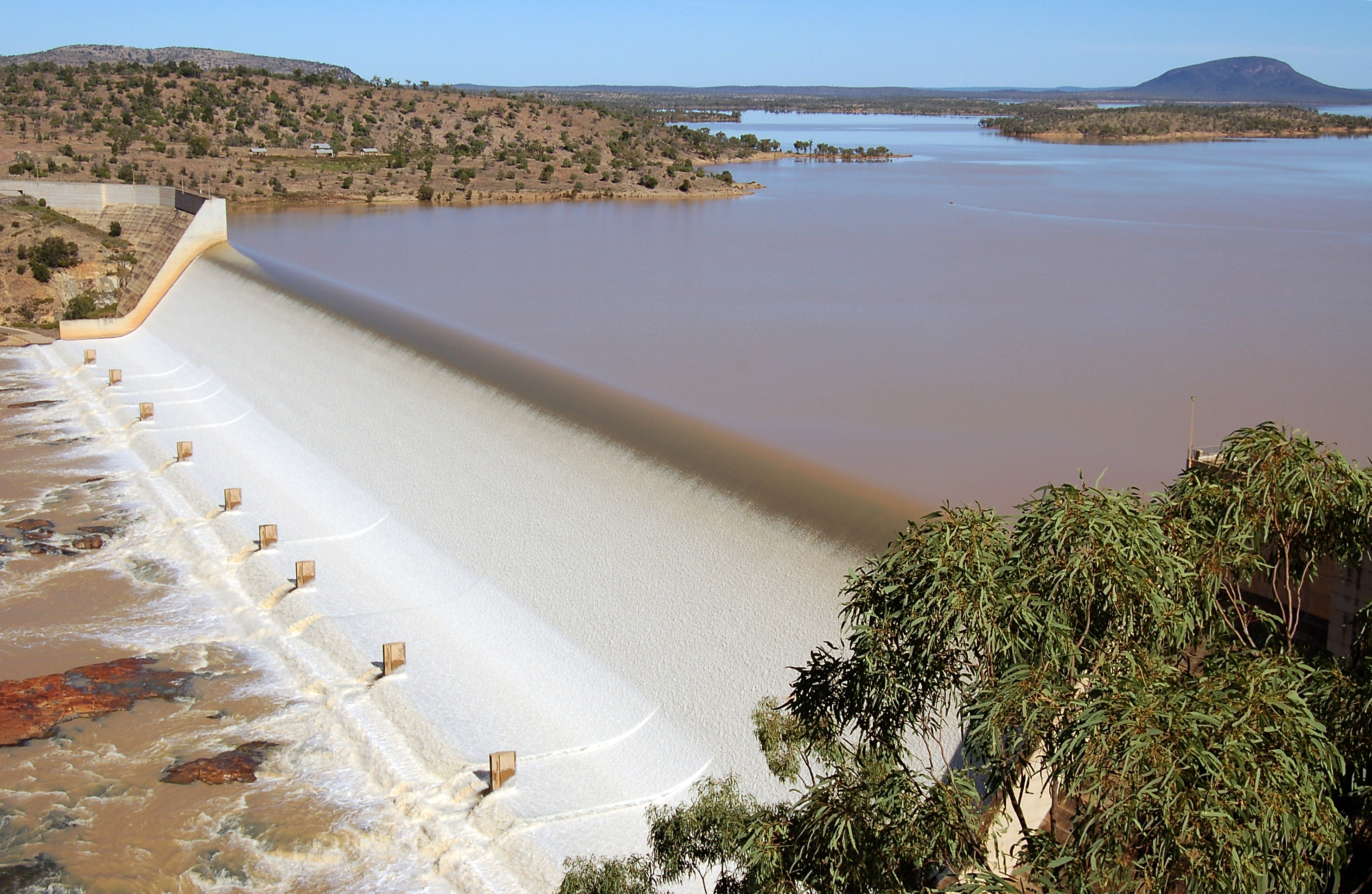 The Burdekin Falls Dam, built in 1987, is the largest dam in Queensland, Australia.